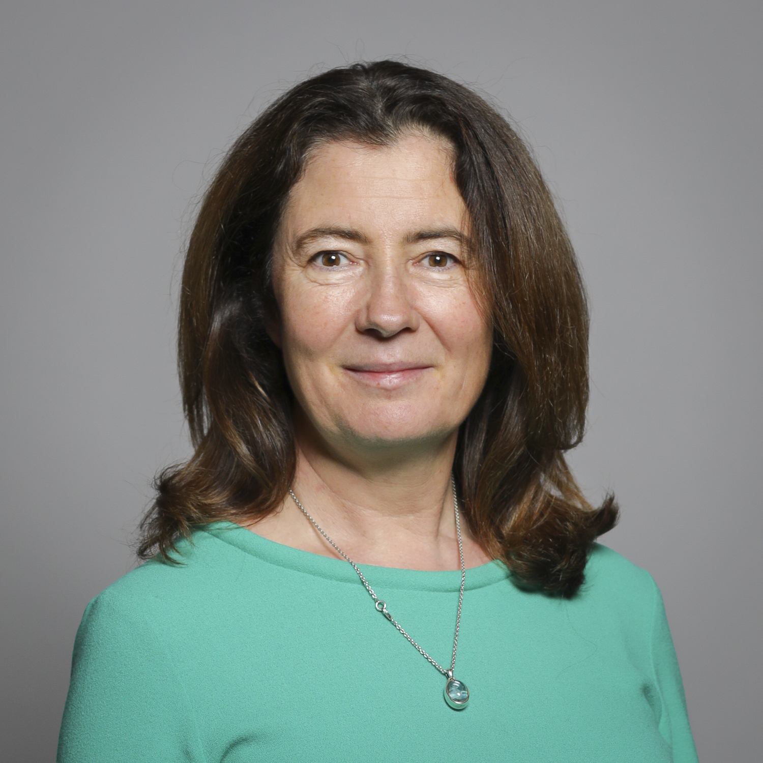 Official portrait of Baroness Williams of Trafford 1×1 portrait of Baroness Williams of Trafford